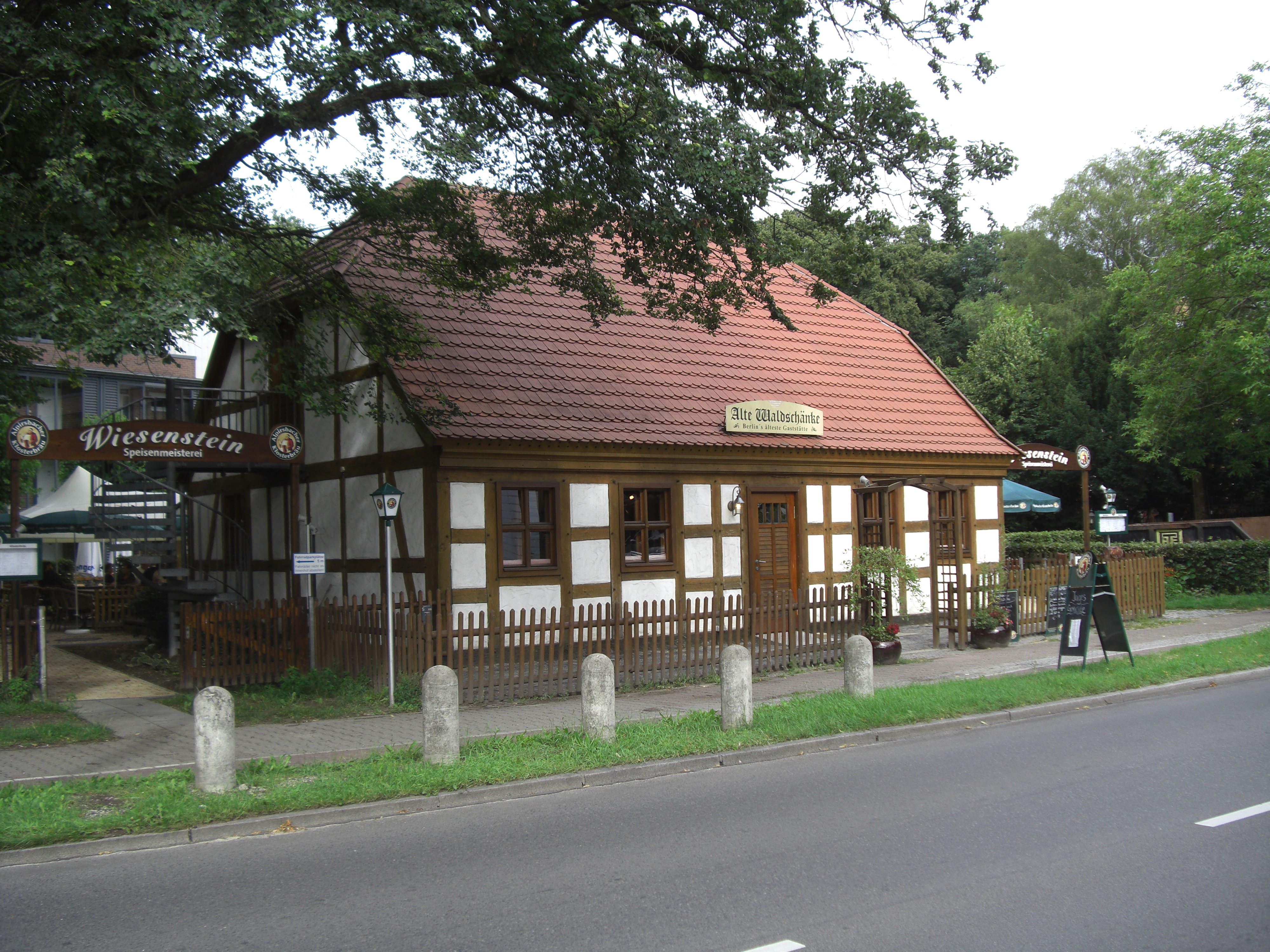 Alte Waldschänke